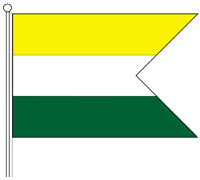 flag of the town of krásno nad kysucou